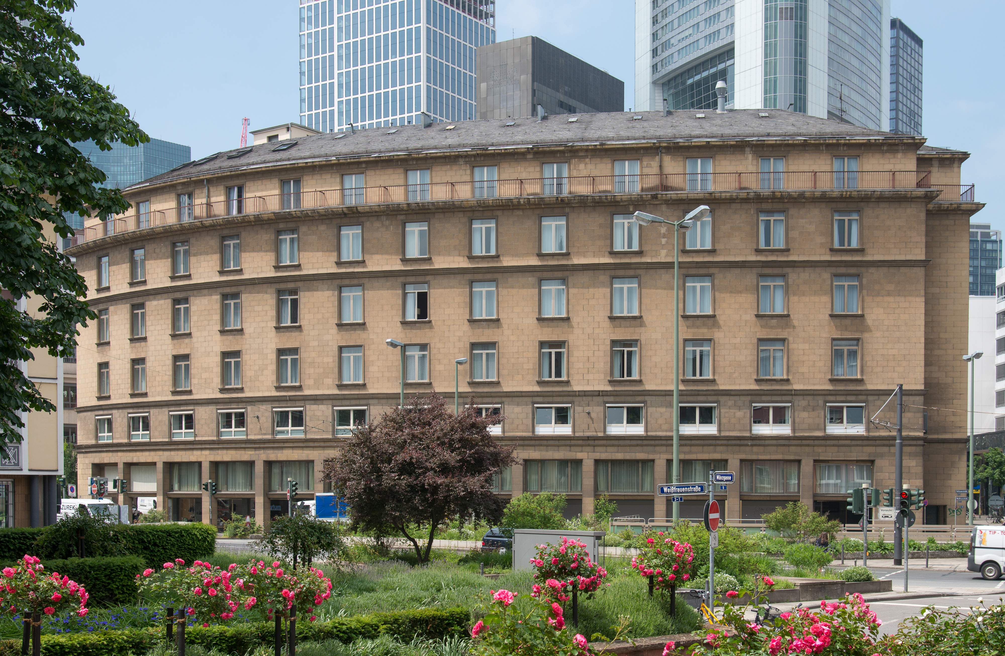 Frankfurt am Main, Berliner/Weißfrauenstraße, Hotel Frankfurter Hof back side as seen from South-East.